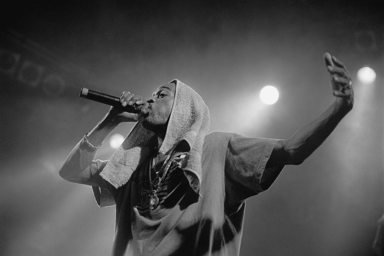 Rapper Rakim MC, Hamburg/Germany 1998-06-03